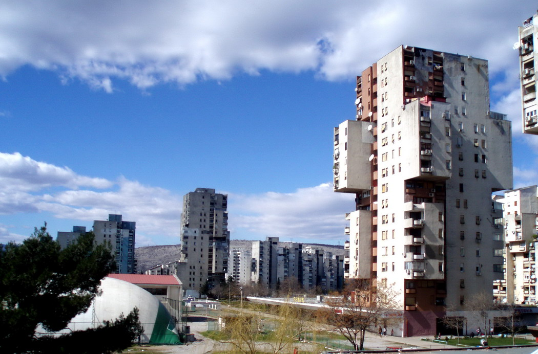 Podgorica, Blok VCrnogorski: Podgorica, Blok VHrvatski: Blok 5 u Podgorici.